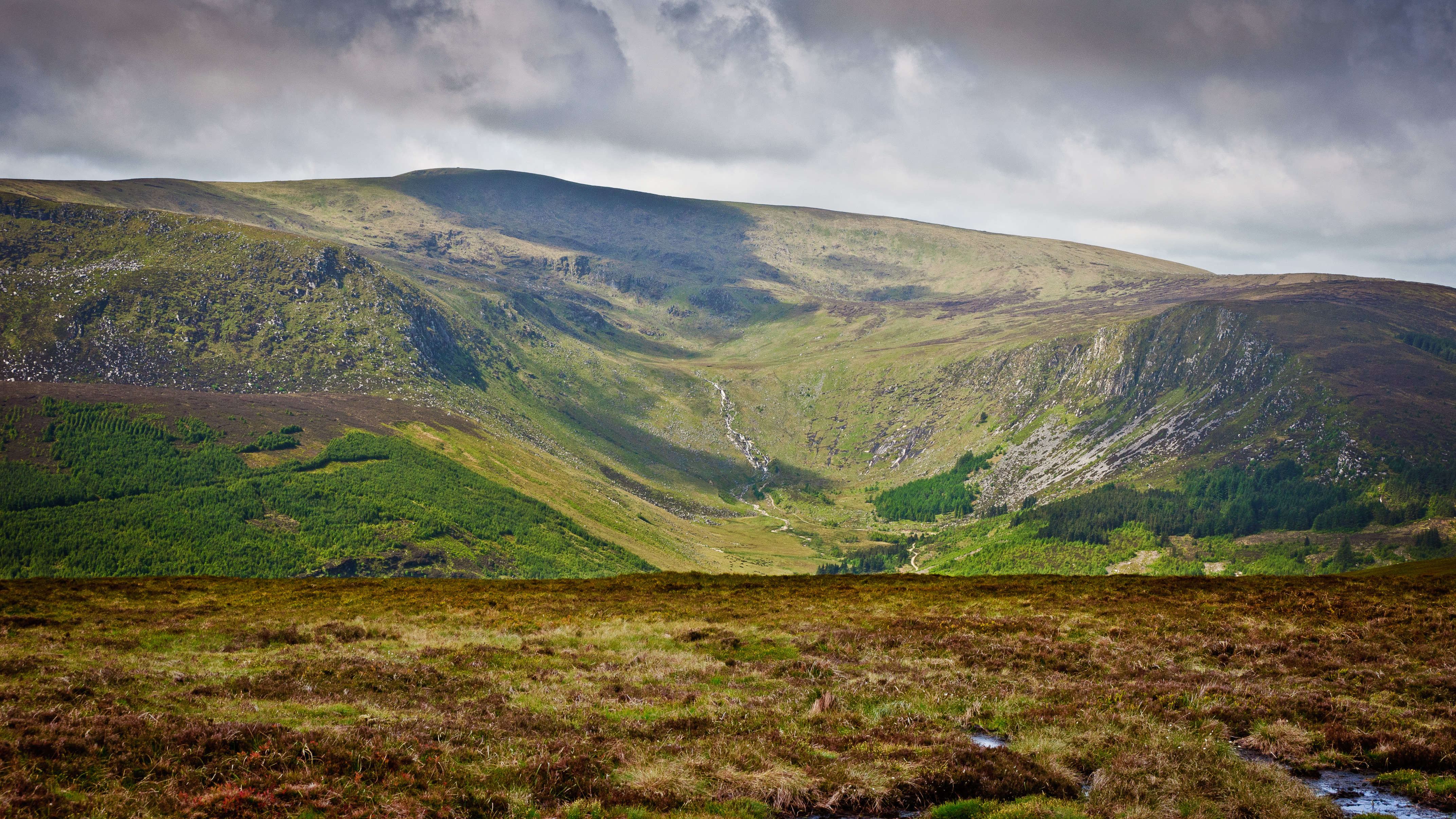 Lugnaquilla, in the Wicklow Mountains, County Wicklow, Ireland is, at 925m, the highest mountain in County Wicklow and in the province of Leinster. It is the 13th highest mountain in Ireland. View is from the summit of Lugduff.